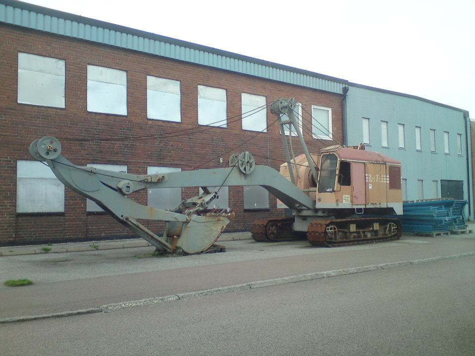 Museum Excavator type KL230 from Landsverk in Landskrona.